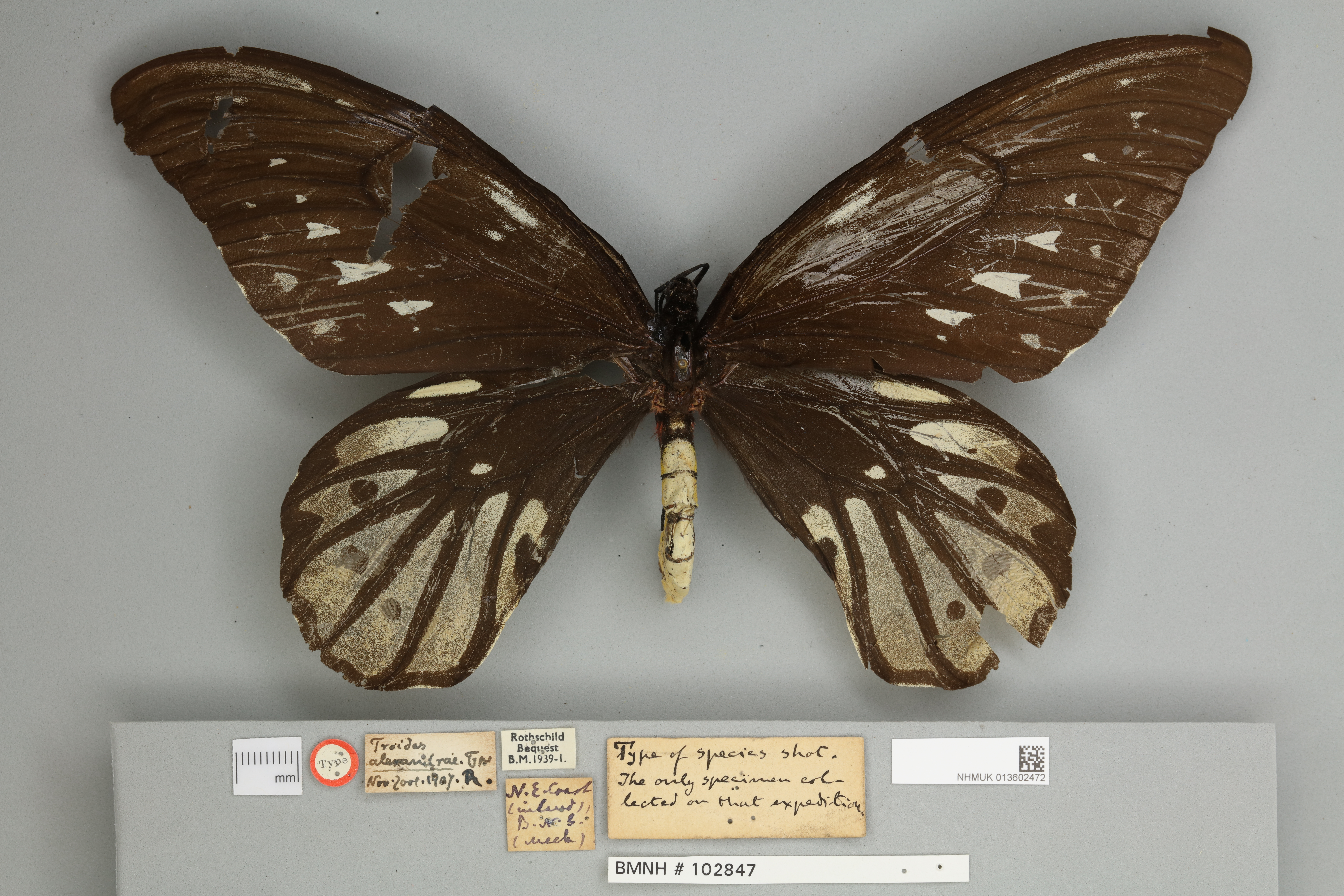 A dorsal photograph of the Queen Alexandra Birdwing Butterfly- Ornithoptera alexandrae Rothschild, 1907. Holotype female.